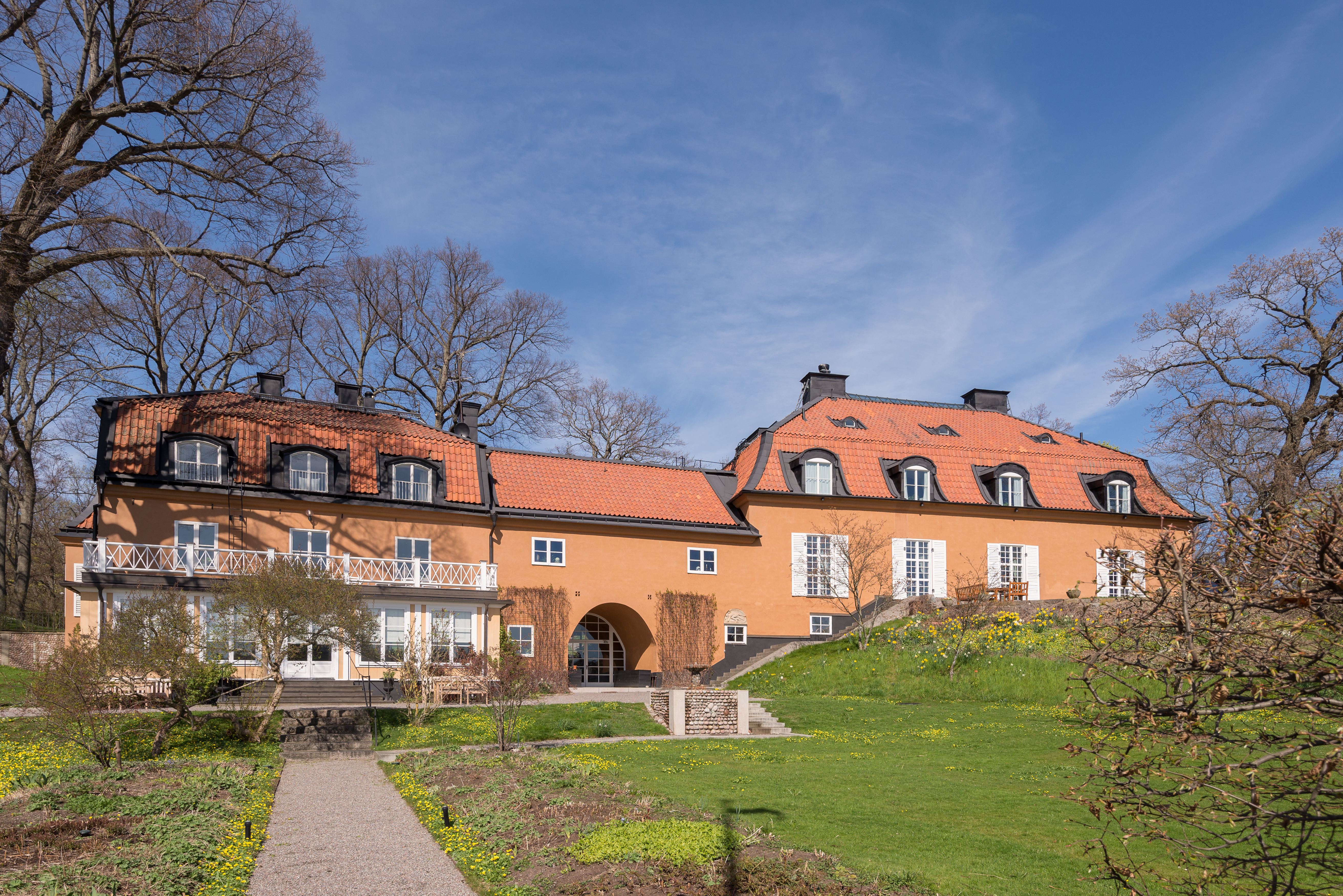 Nedre Manilla is a property in Djurgården (Stockholm) owned by the Bonnier family since 1909. Current design from 1909. Architect Ragnar Östberg.